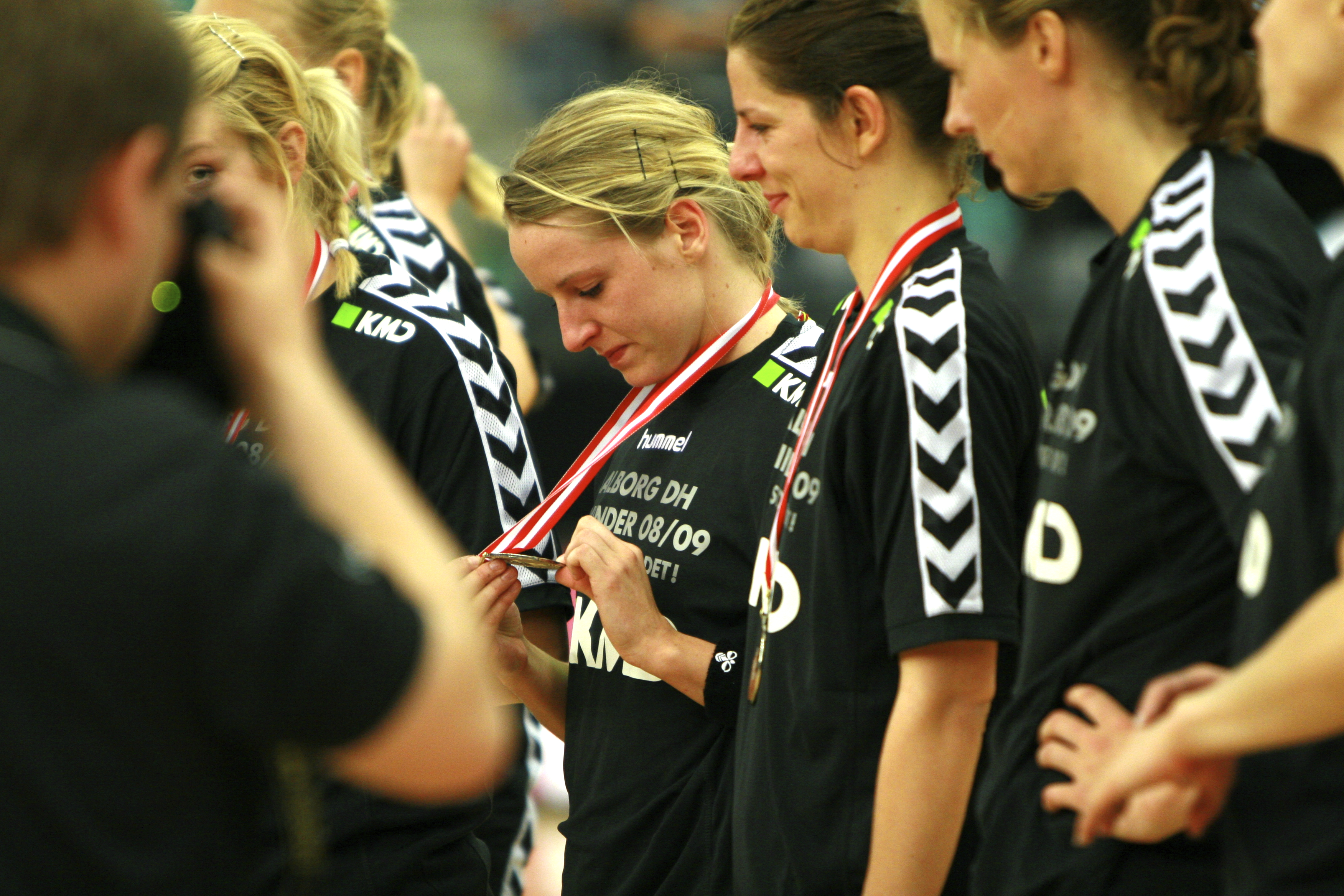 Lærke Møller from Aalborg DH, with the silver medal.